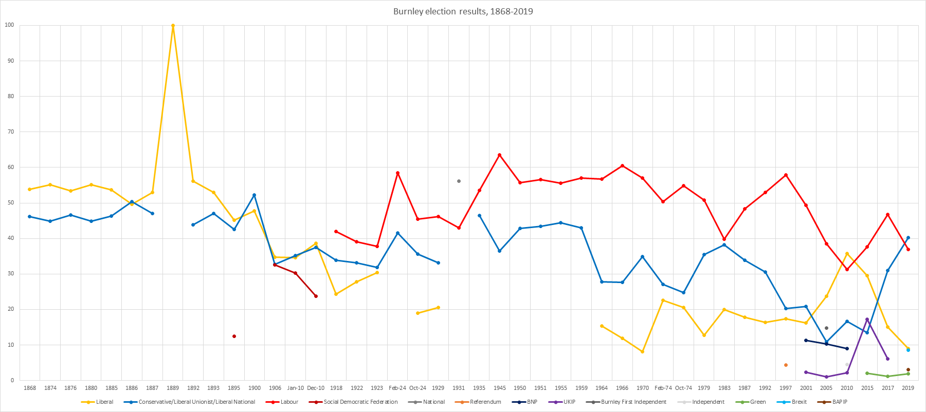 Election results for the Burnley constituency